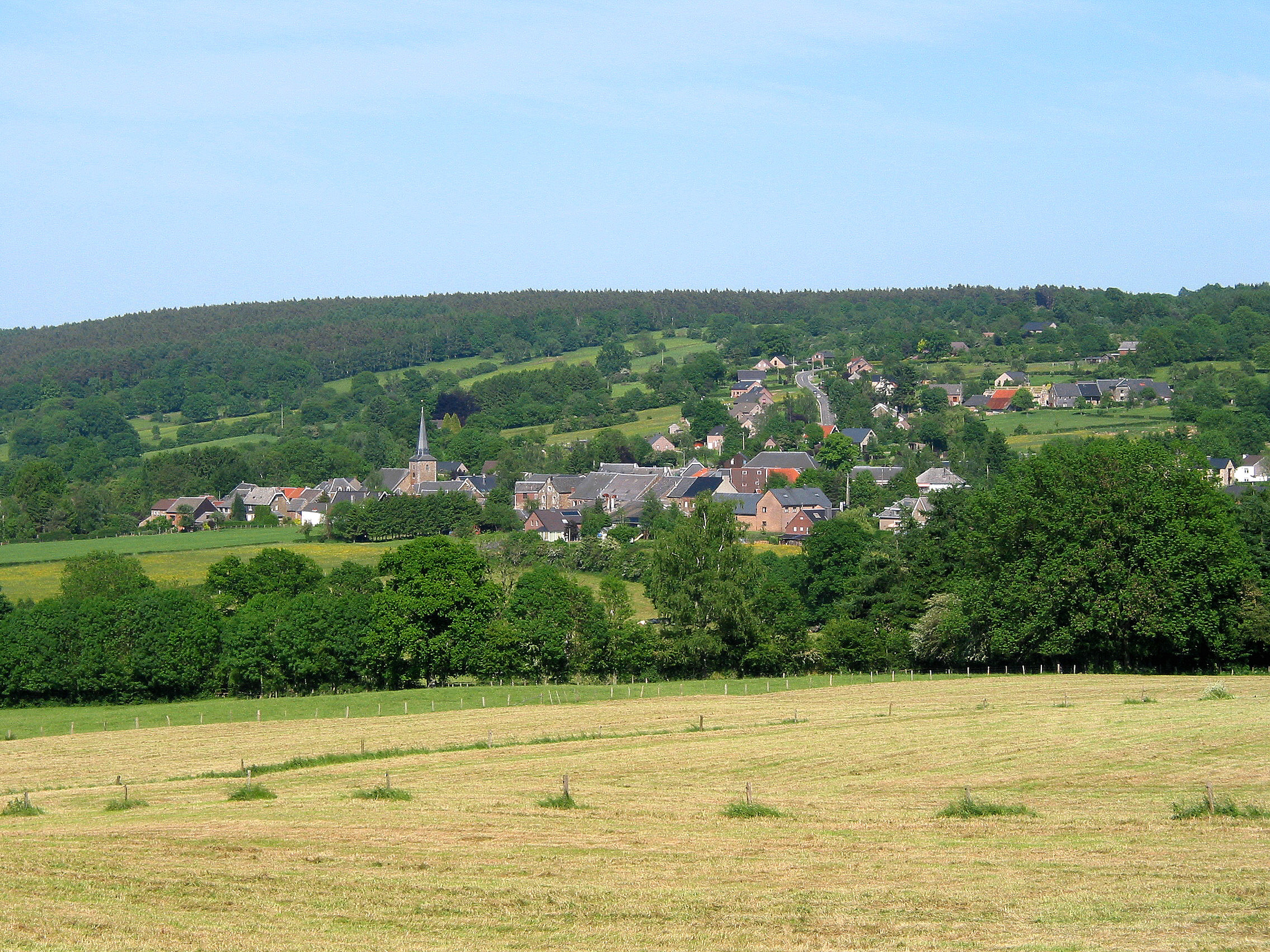 La Reid Belgium, the village seen from the road of Hautregard.